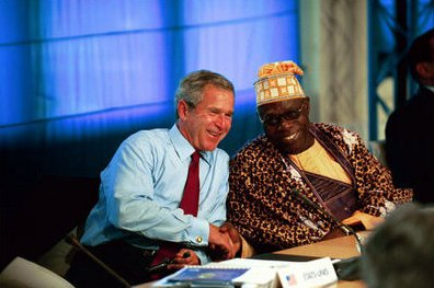 President George W. Bush talks with President Olusegun Obasanjo of Nigeria during a G8 Summit working session in Evian, France, June 1, 2003.